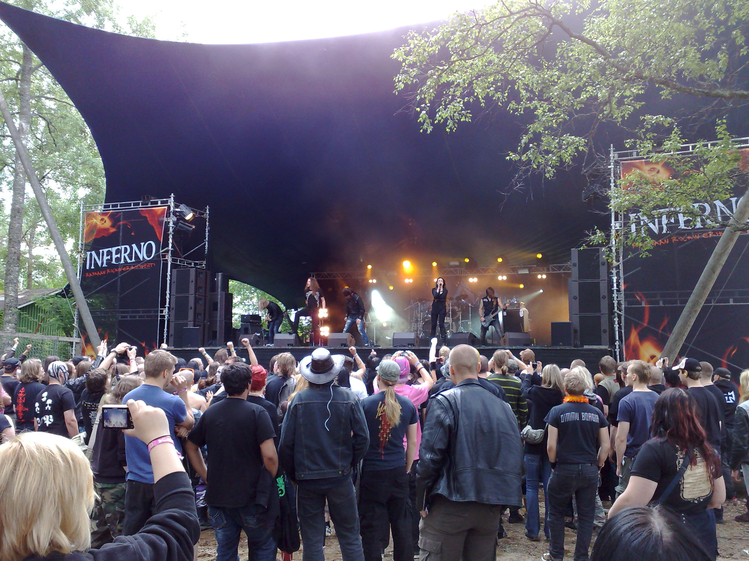 Swedish power metal/melodic death metal band Amaranthe performing at the Nummirock heavy metal festival in Kauhajoki Finland.